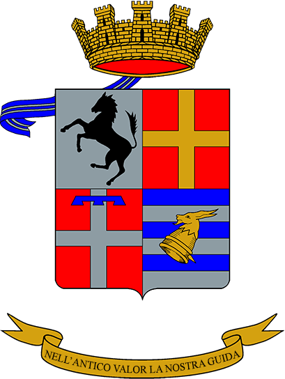 Coat of Arms of the 24° Artillery Regiment; Italian Army.